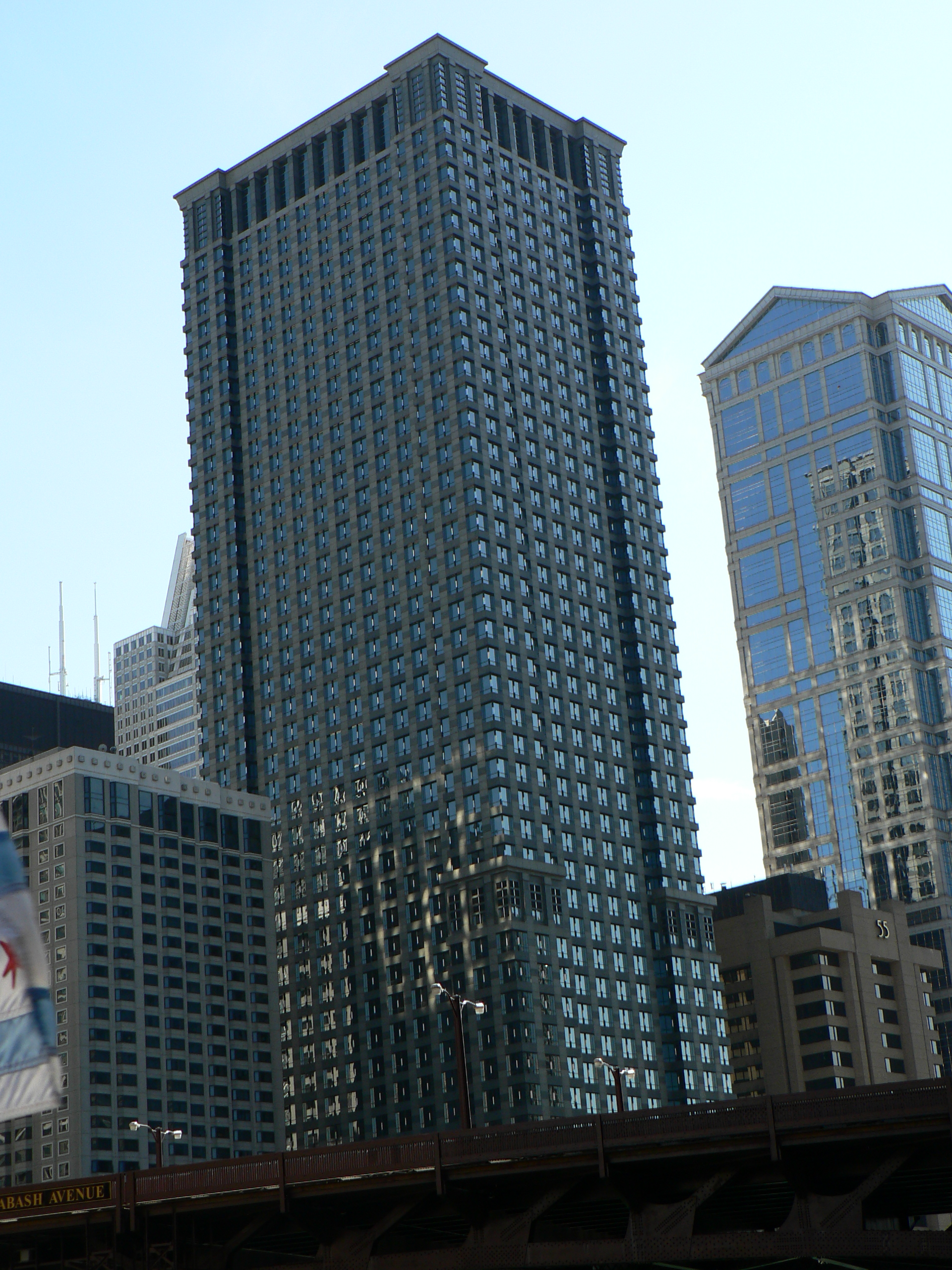 Photo of the Leo Burnett Building, Chicago, Ill. Taken from the Chicago River.